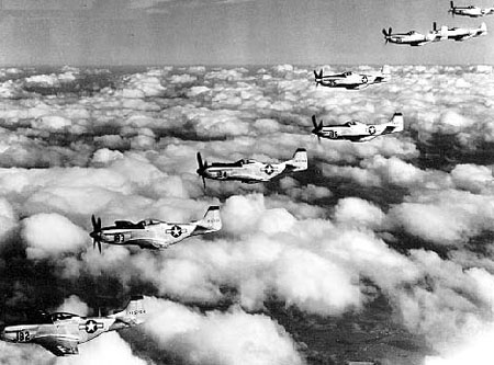 North American P-51D eight aircraft formation